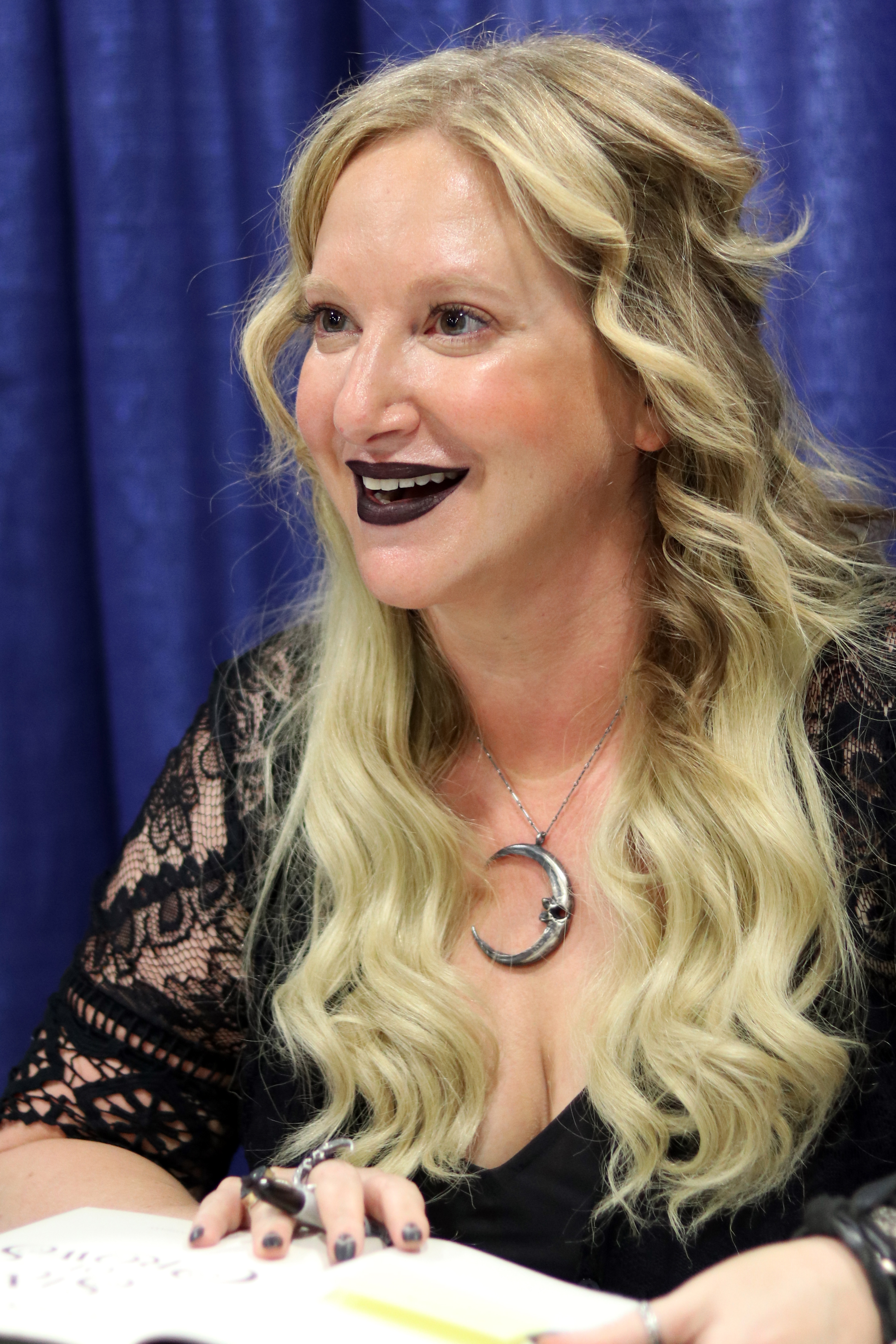 Leigh Bardugo at the 2018 U.S. National Book Festival